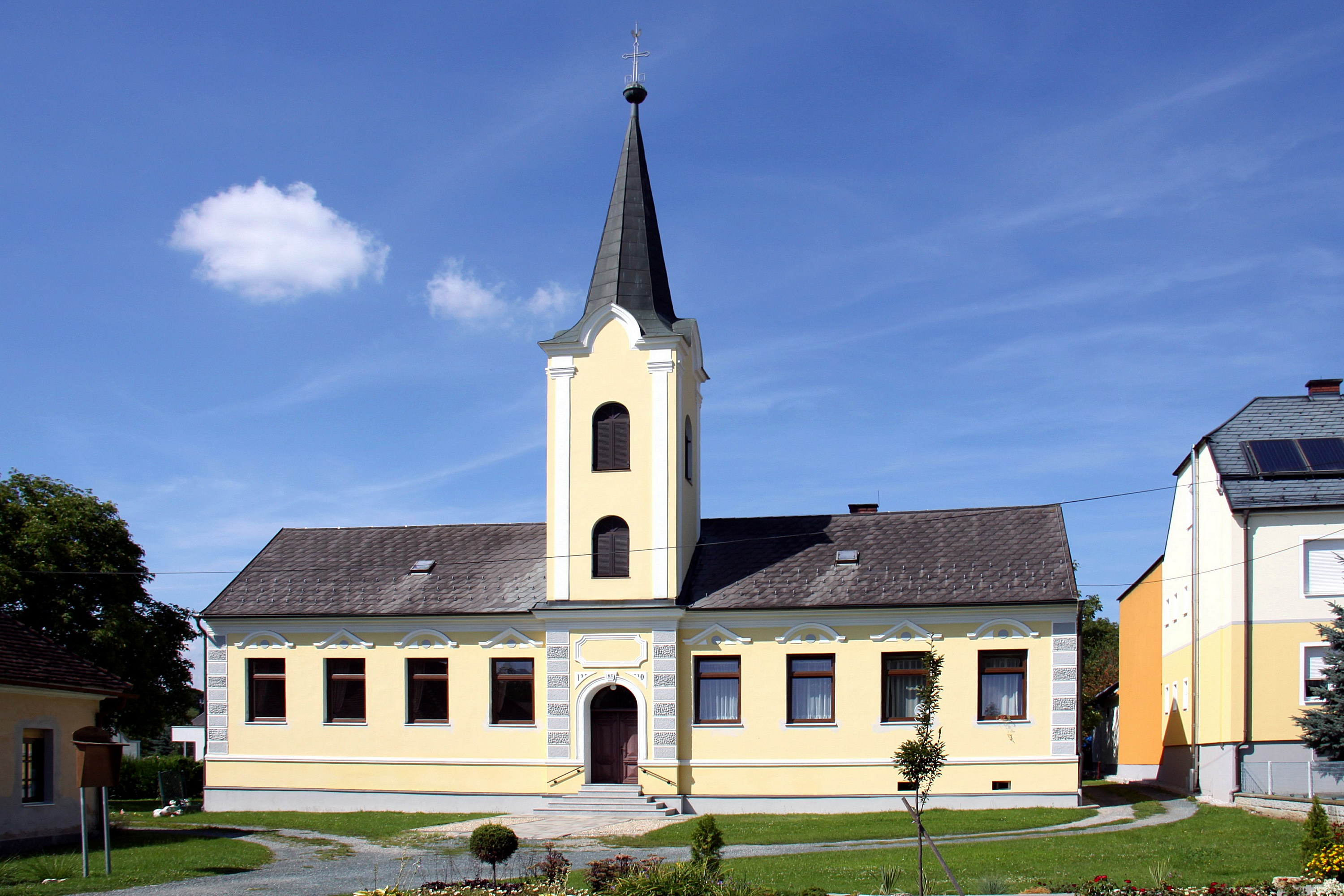 Wolfau Object location47° 15′ 22.91″ N, 16° 05′ 37.53″ E